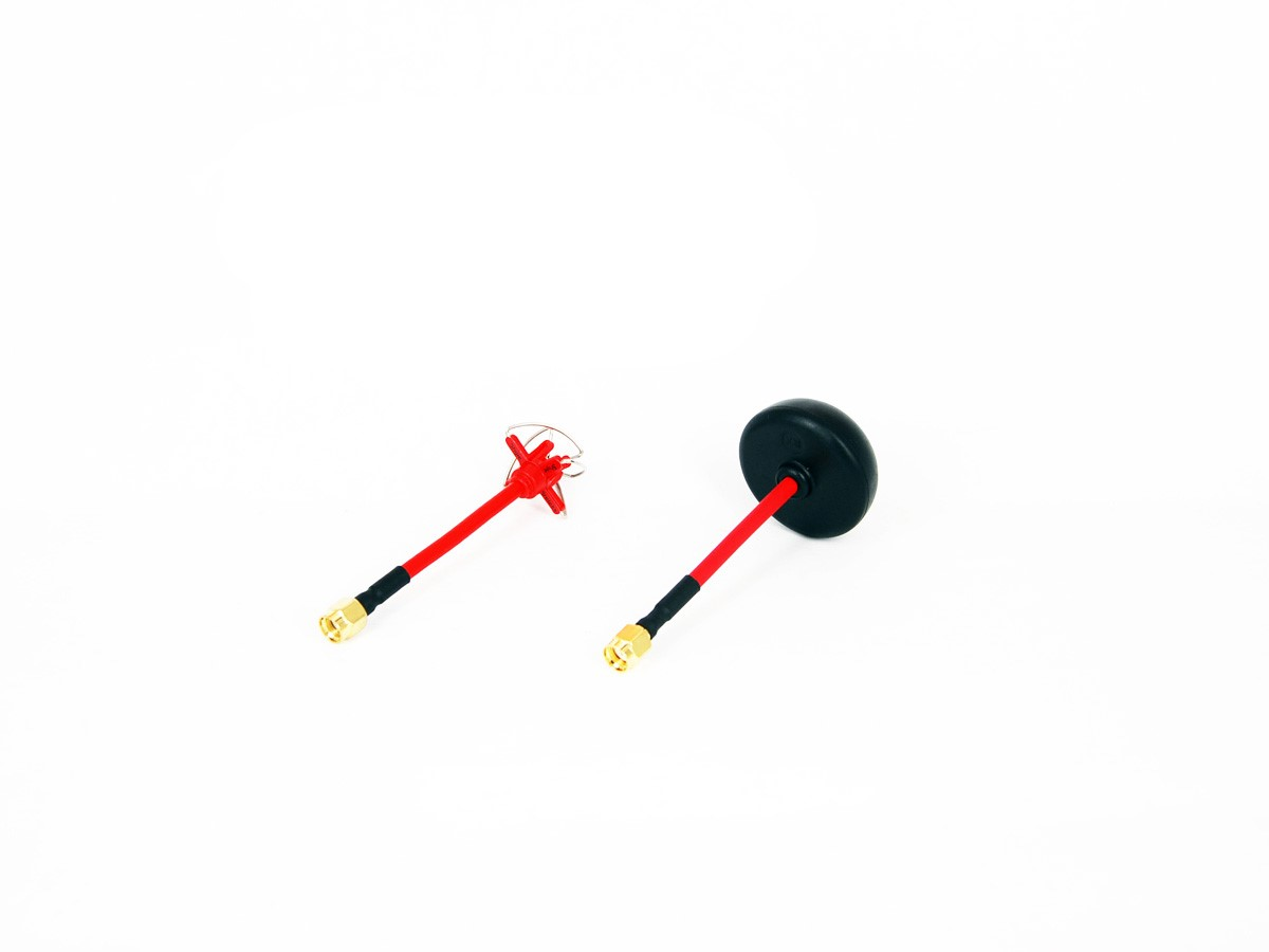 airmind